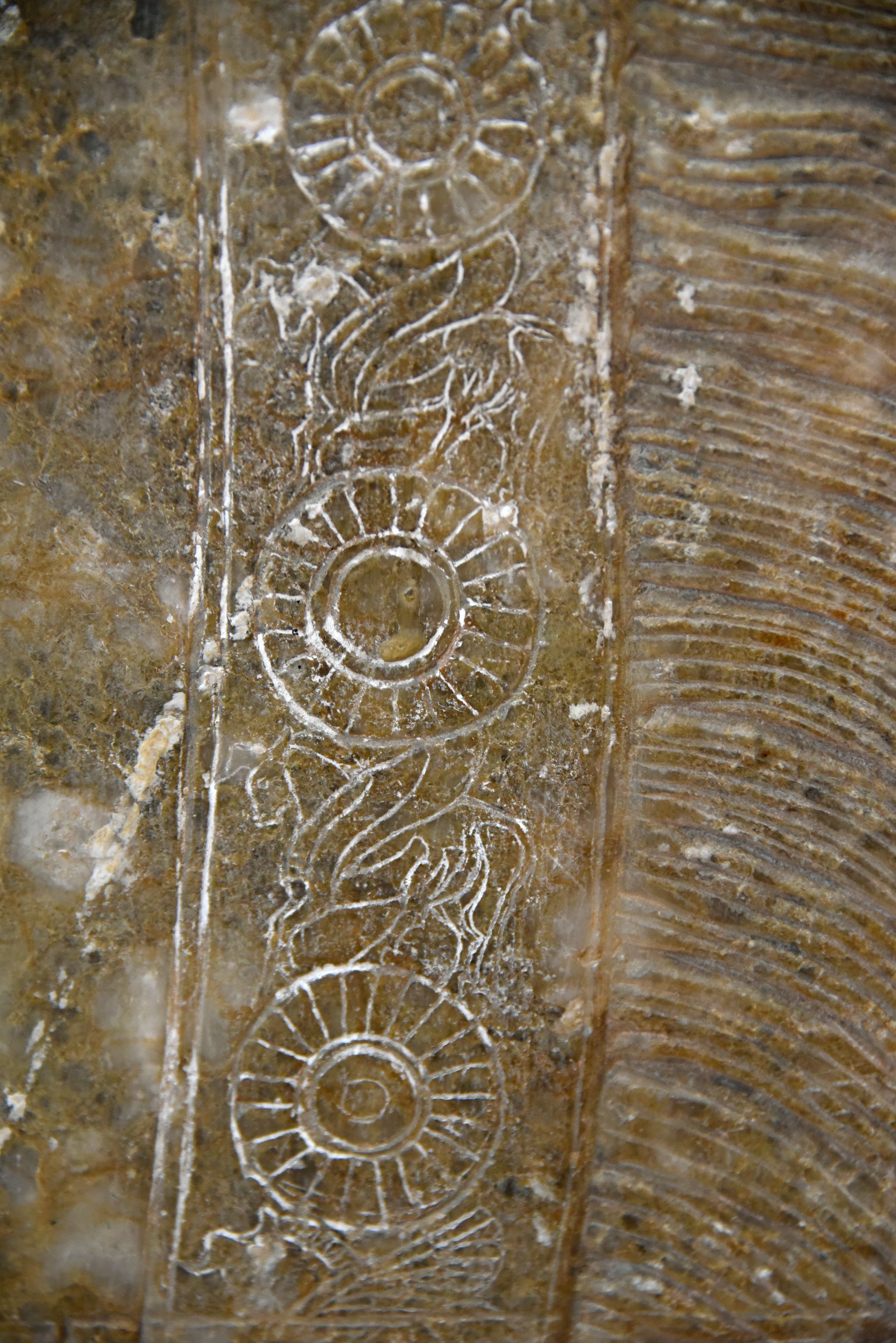 A zoomed-in image of the embroidered dress of a standing male Apkallu, depicting 4-legged winged and horned animals. From the North-West Palace at Nimrud (ancient Kalhu), Northern Mesopotamia, Iraq. Neo-Assyrian Period, reign of Ashurnasirpal II, 883-859 BCE. Ancient Orient Museum, Istanbul.